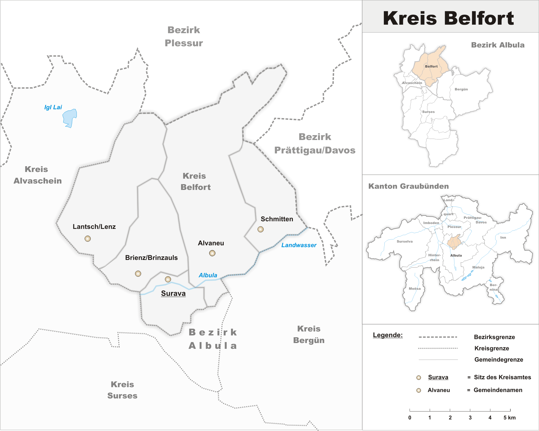 Municipalities in the circle of Belfort